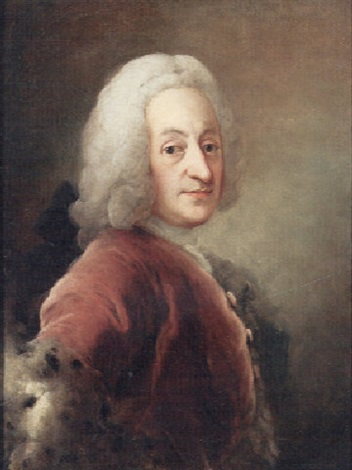 Portræt af conferenråd Hans Seidelin , 1748. Probably a copy of an older portrait.